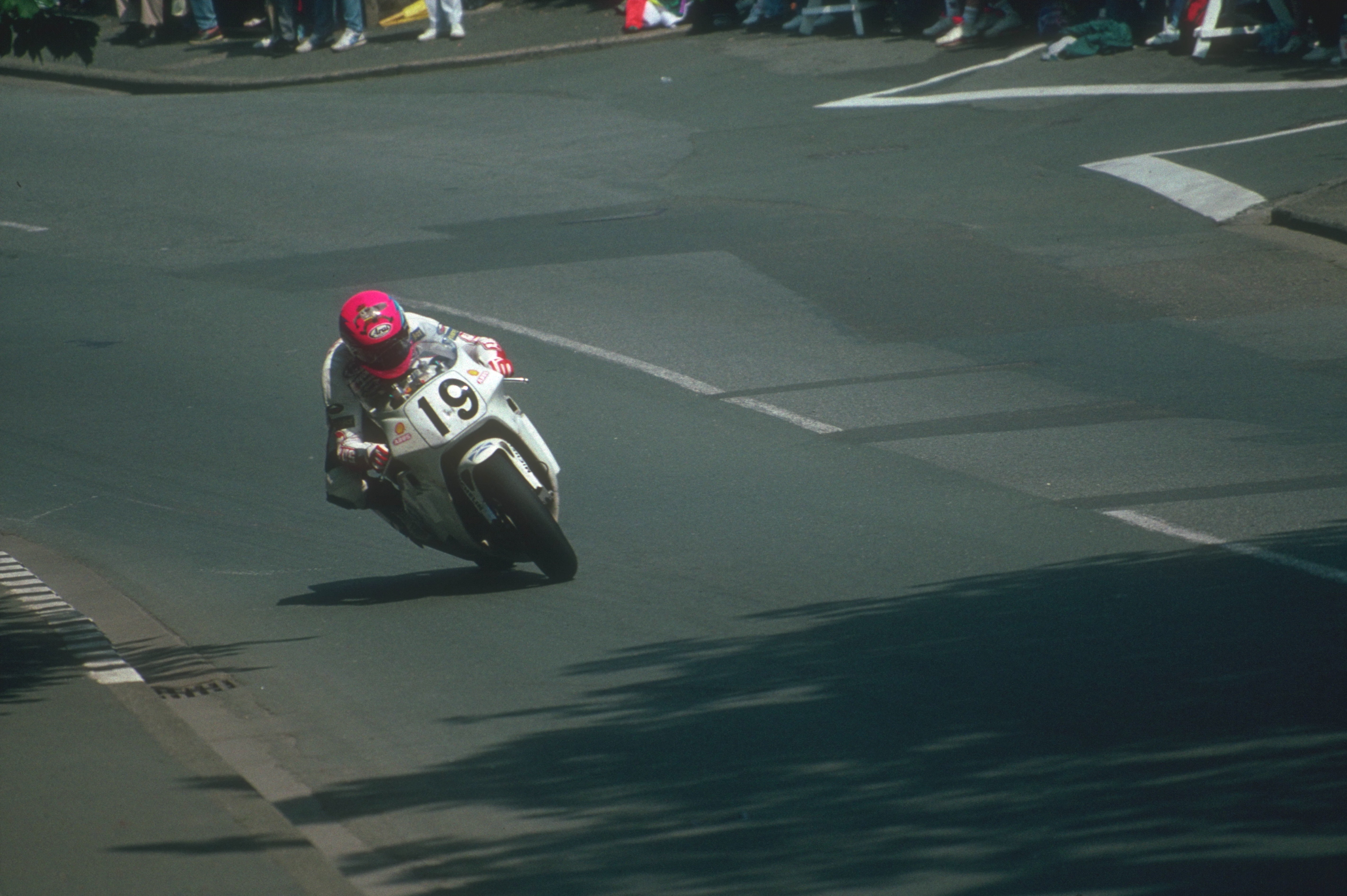 Steve Hislop at Bray Hill